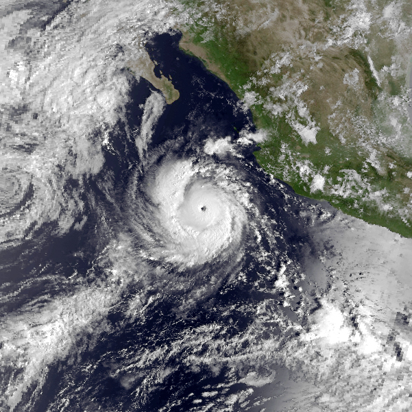 Hurricane Norma on October 10, 1981